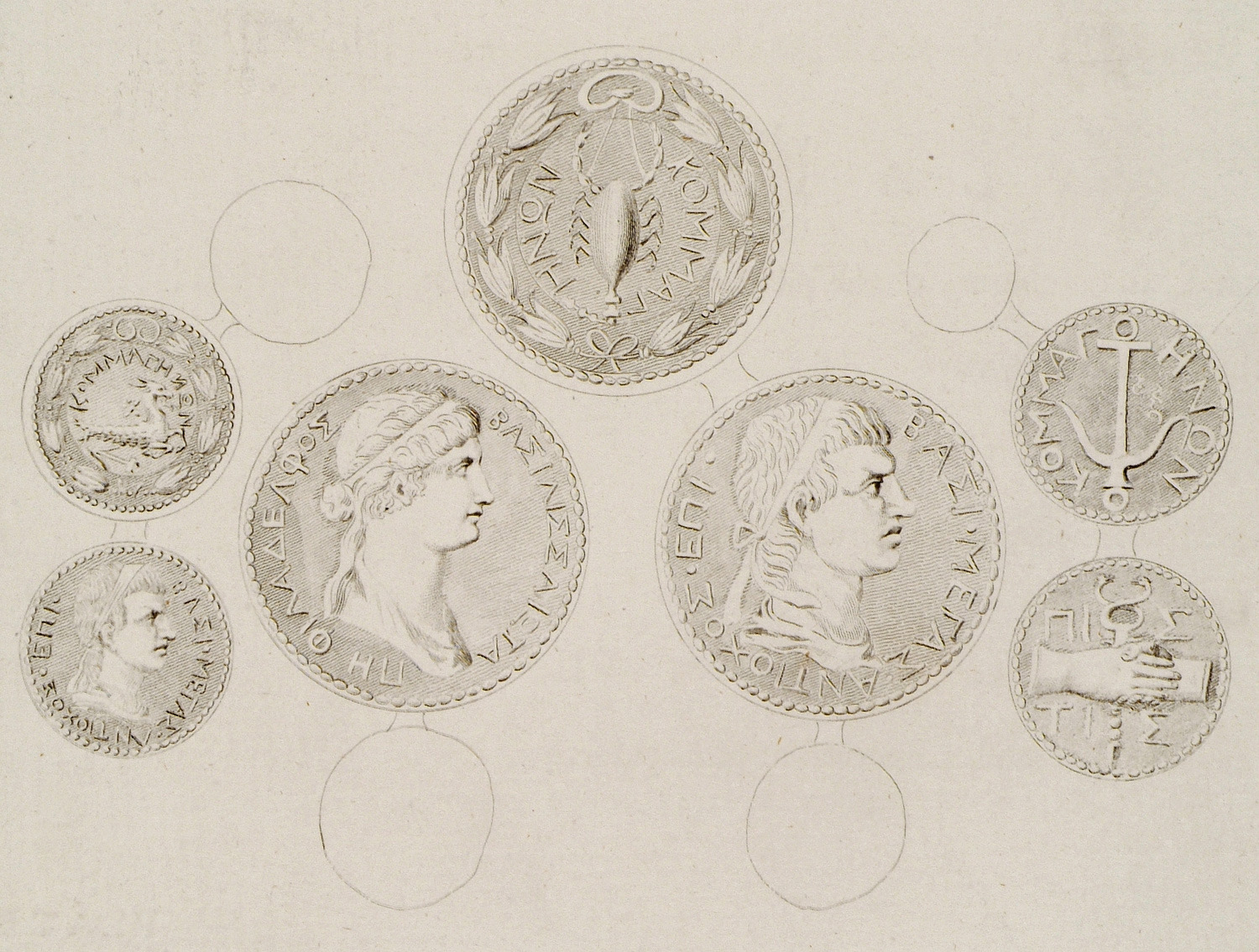 James Stuart & Nicholas Revett. The Antiquities of Athens measured and delineated by James Stuart F.R.S. and F.S.A. and Nicholas Revett Painters and Αrchitects, vol. III (ed. Willey Reveley), London, John Nichols, 1794